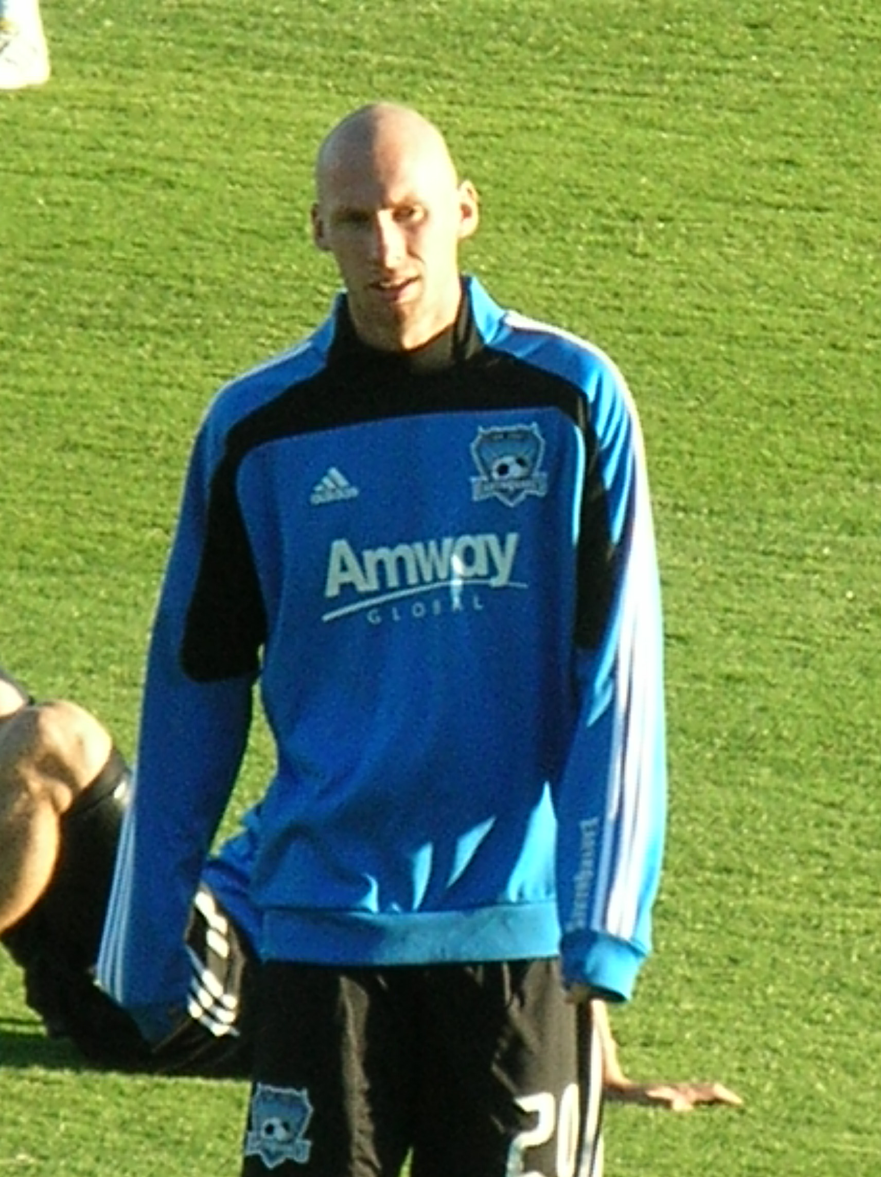 San Jose Earthquakes defender Tim Ward warming up before a home game against the Philadelphia Union. The Earthquakes won 1-0.